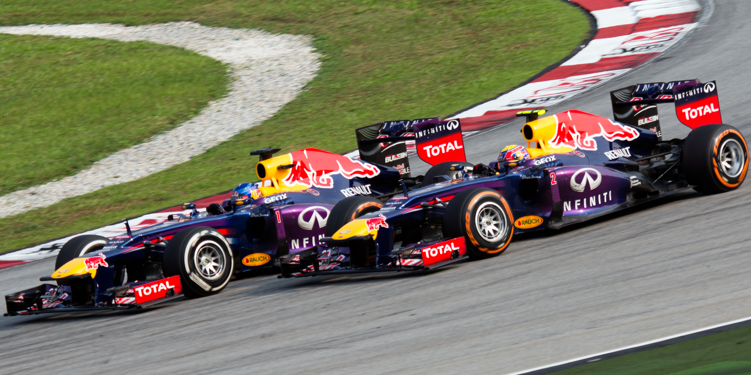 Formula One 2013 Rd.2 Malaysian GP: Sebastian Vettel (Red Bull) overtaking Mark Webber (Red Bull).